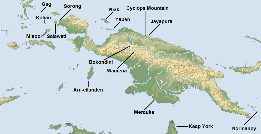 Islands with founds of Morelia viridis